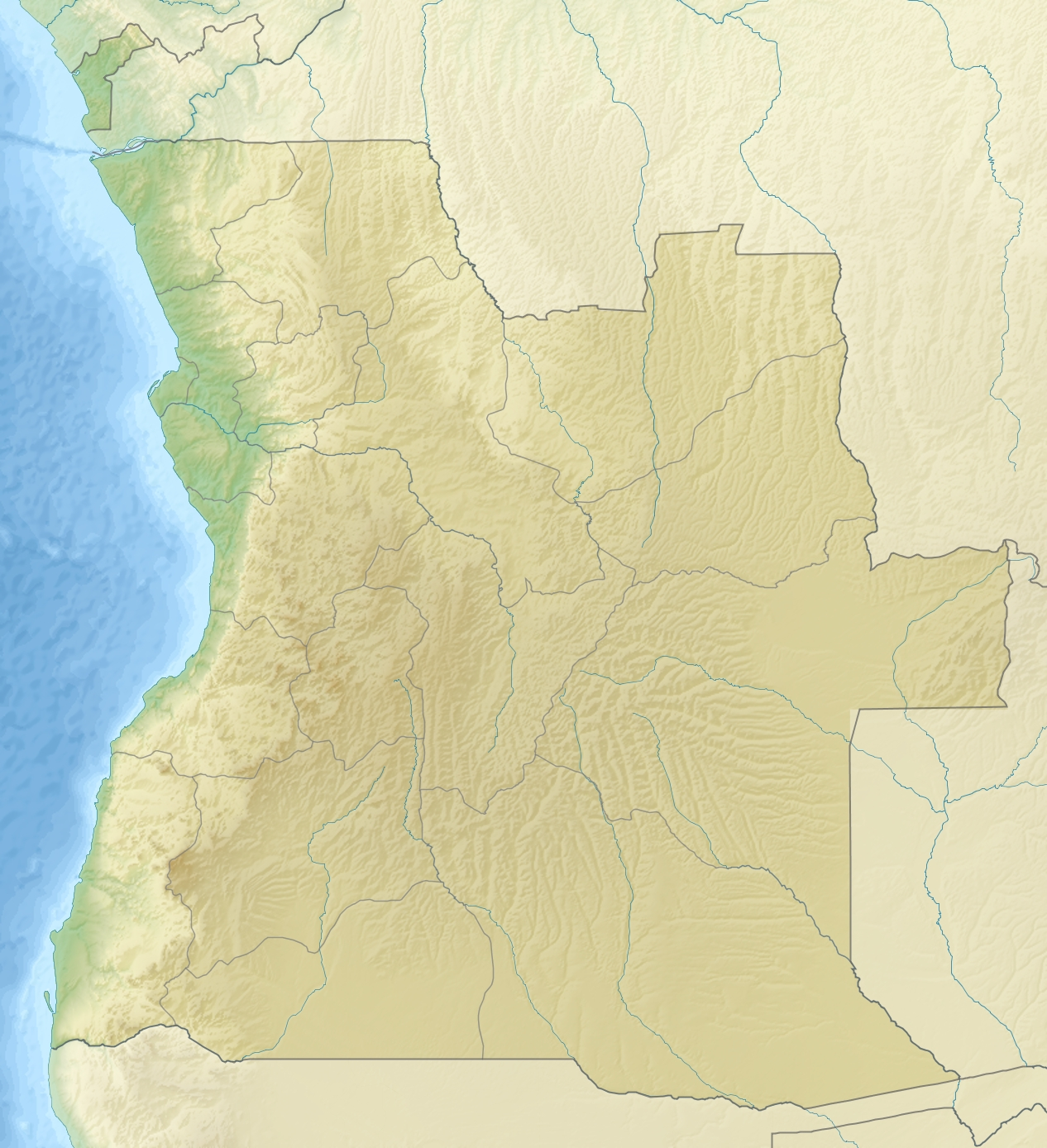 Relief location map of Angola. Projection: Equirectangular projection, strechted by 102.0%. Geographic limits of the map: N: -4.1° N S: -18.5° N W: 11.1° E E: 24.5° E GMT projection: -JX21.4376cd/23.498169313432836cd GMT region: -R11.1/-18.5/24.5/-4.1r GMT region for grdcut: -R11.1/-18.5/24.5/-4.1r Relief: SRTM30plus. Made with Natural Earth. Free vector and raster map data @ .